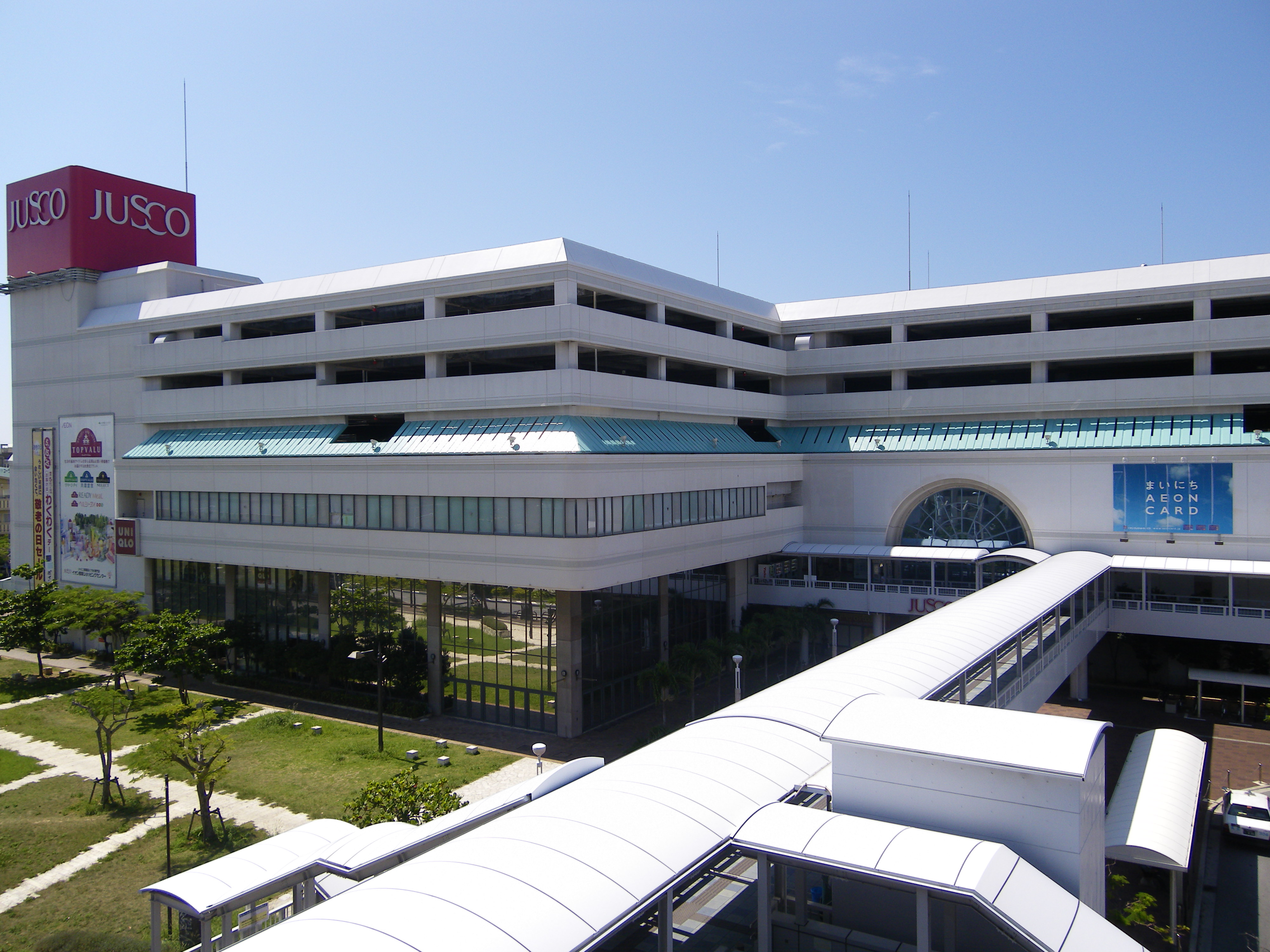 The building of ÆON Naha Shopping Center view from the Oroku Station